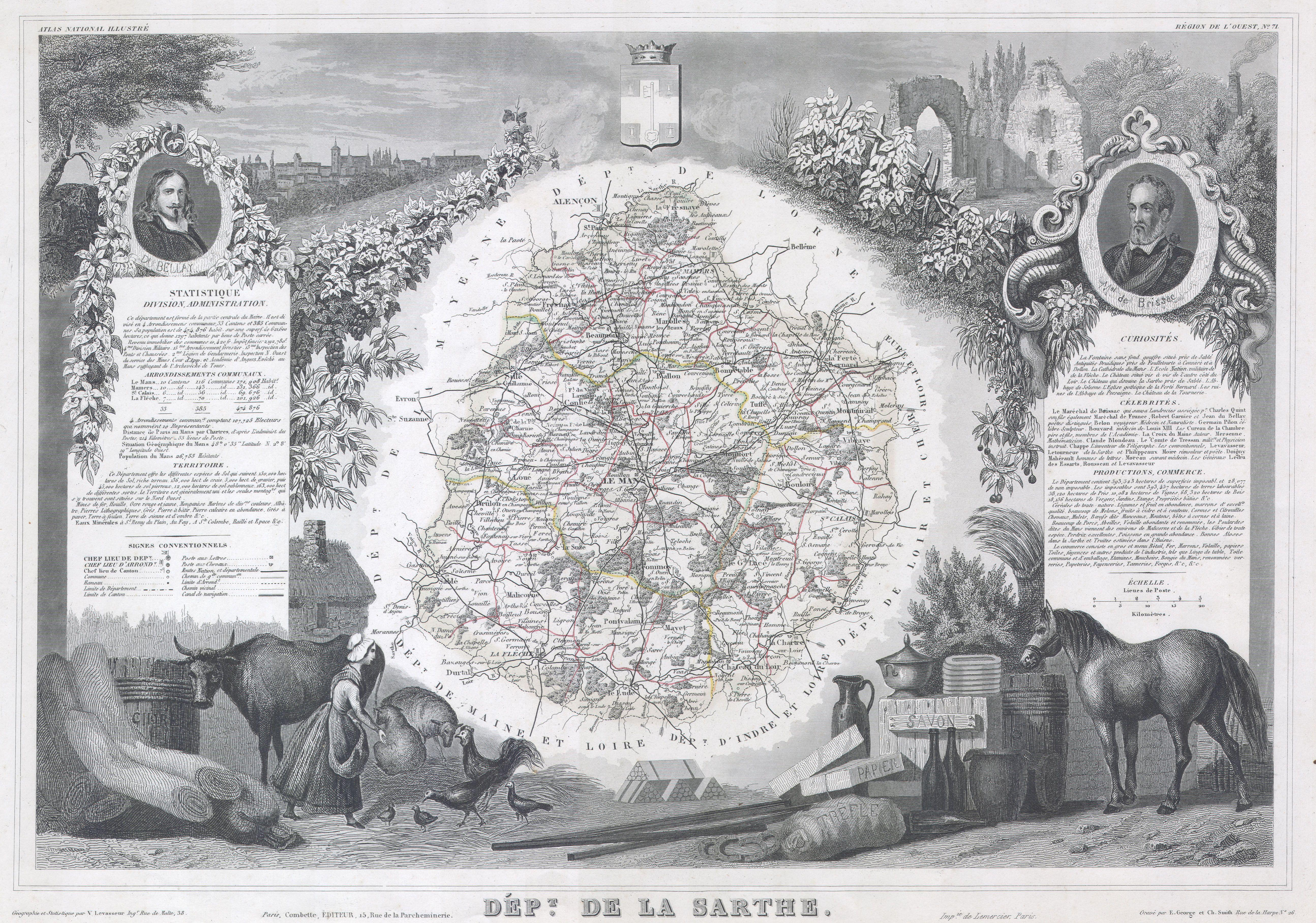 This is a fascinating 1847 map of the French department of Sarthe, surrounding the city of Le Mans. Sarthe is a Loire valley wine growing region that specializes in the lesser known French varietals of Jasnieres and Coteaux du Loir. It is also one of the primary areas where the oak barrels for many European wines are produced. The whole is surrounded by elaborate decorative engravings designed to illustrate both the natural beauty and trade richness of the land. There is a short textual history of the regions depicted on both the left and right sides of the map.